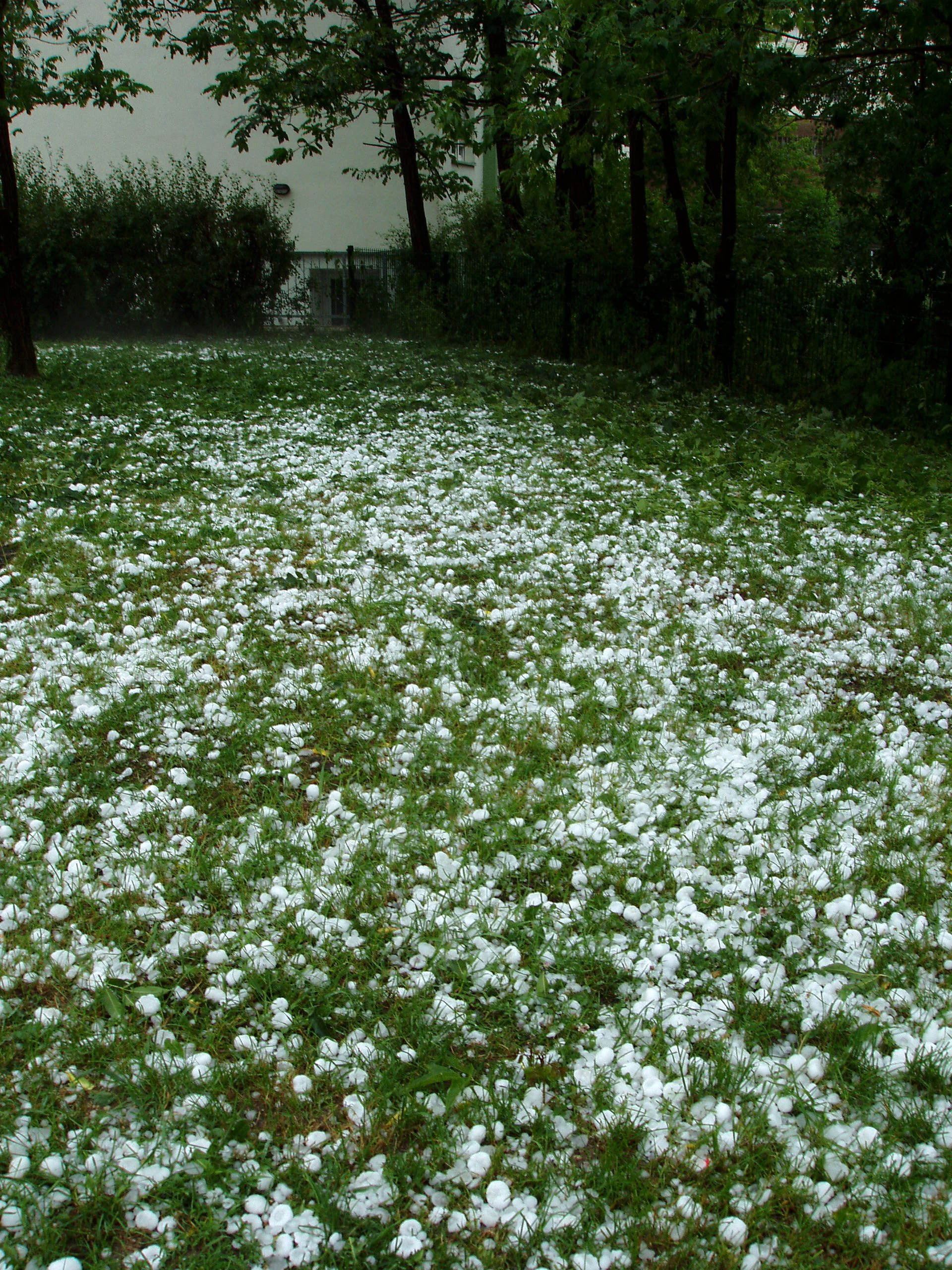 Photographer: Soon Chun Siong